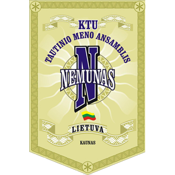 An official flag of KTU Folk Song and Dance Ensemble "Nemunas"